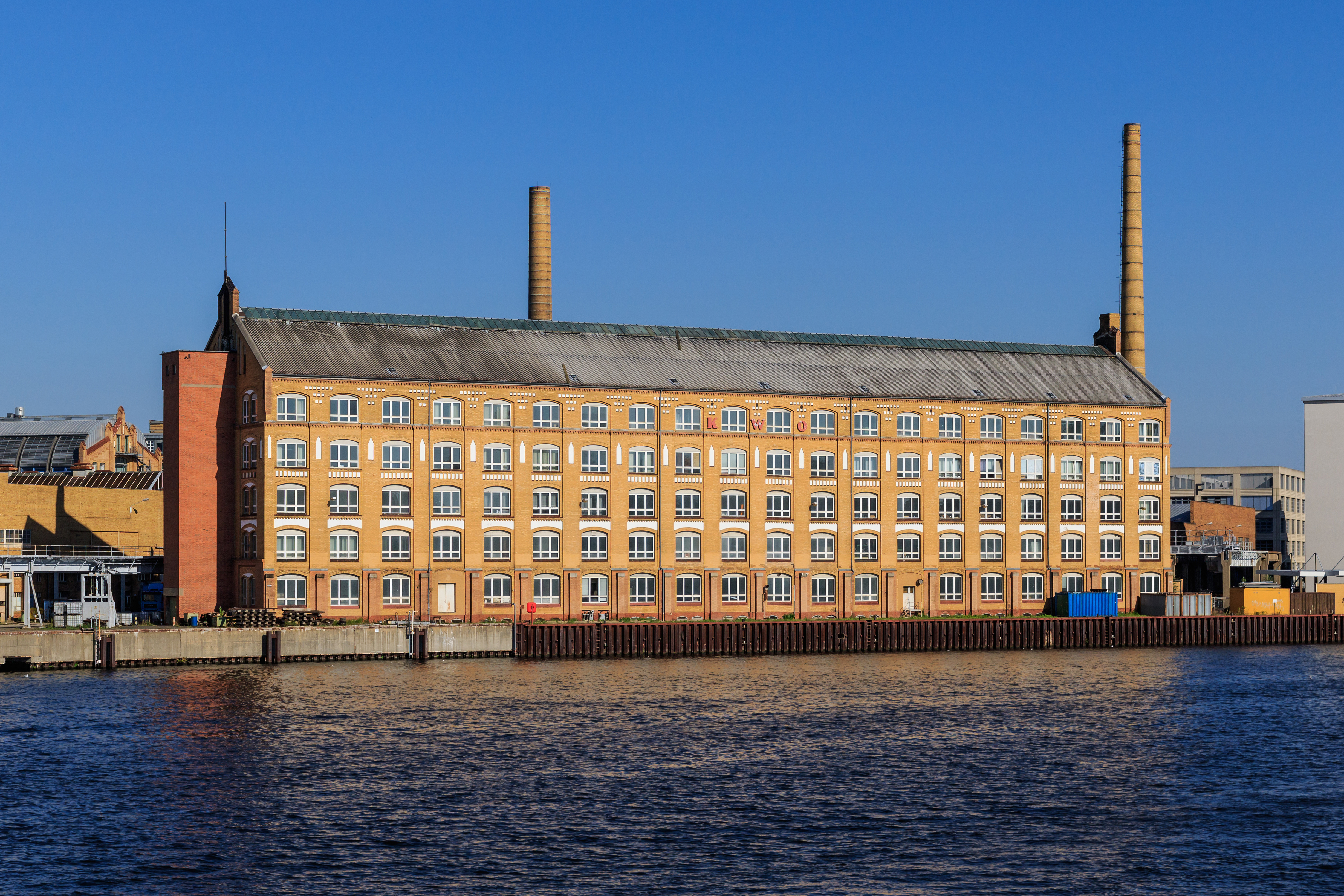 Former industry building in Oberschöneweide in Berlin (Germany)